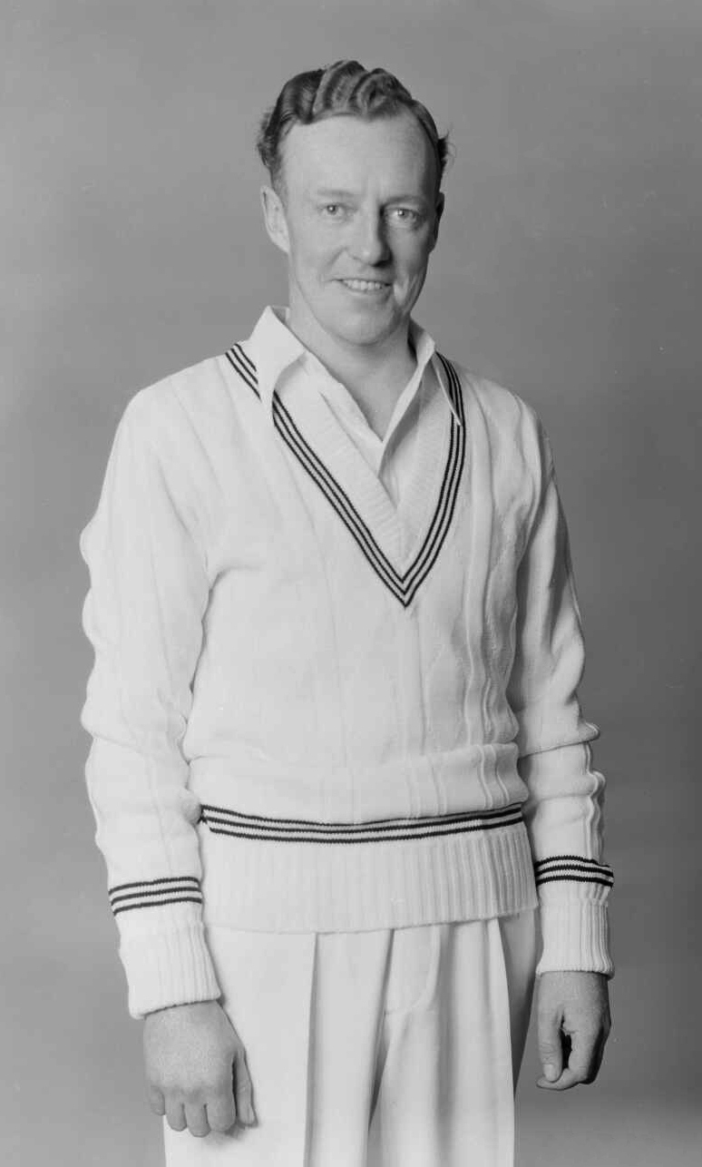 Photograph taken by Crown Studios of Wellington in 1957 showing New Zealand Cricket team wicketkeeper Francis Leonard (Frank) Mooney in his cricket whites.